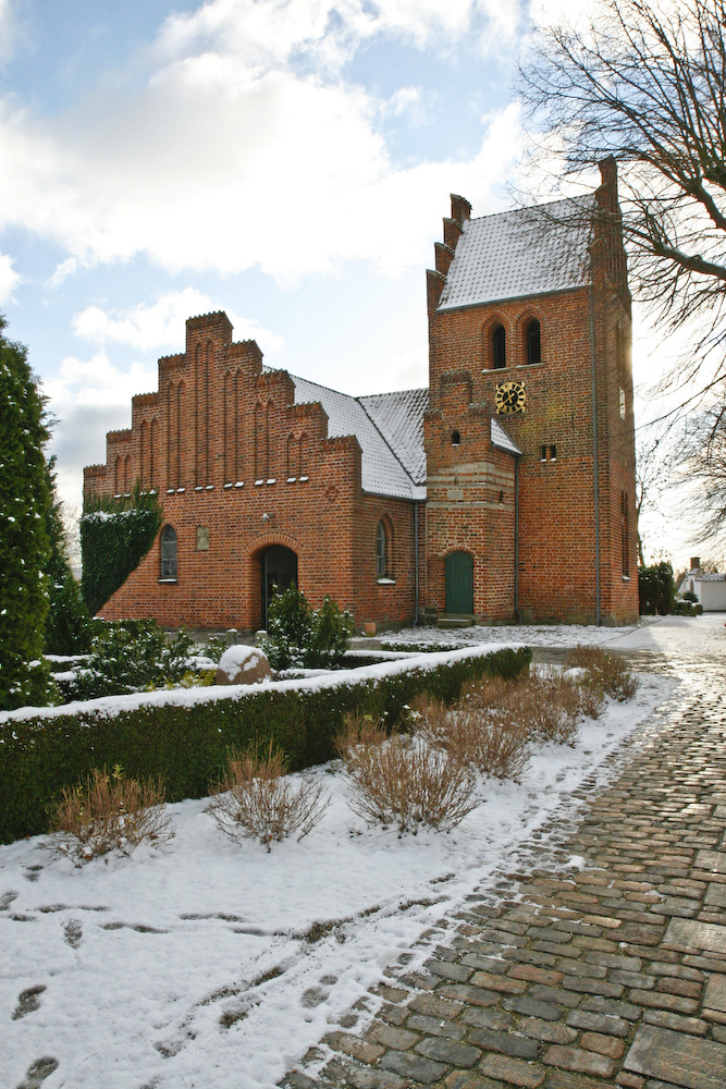 Ganløse Kirke, church in the village Ganløse, Denmark